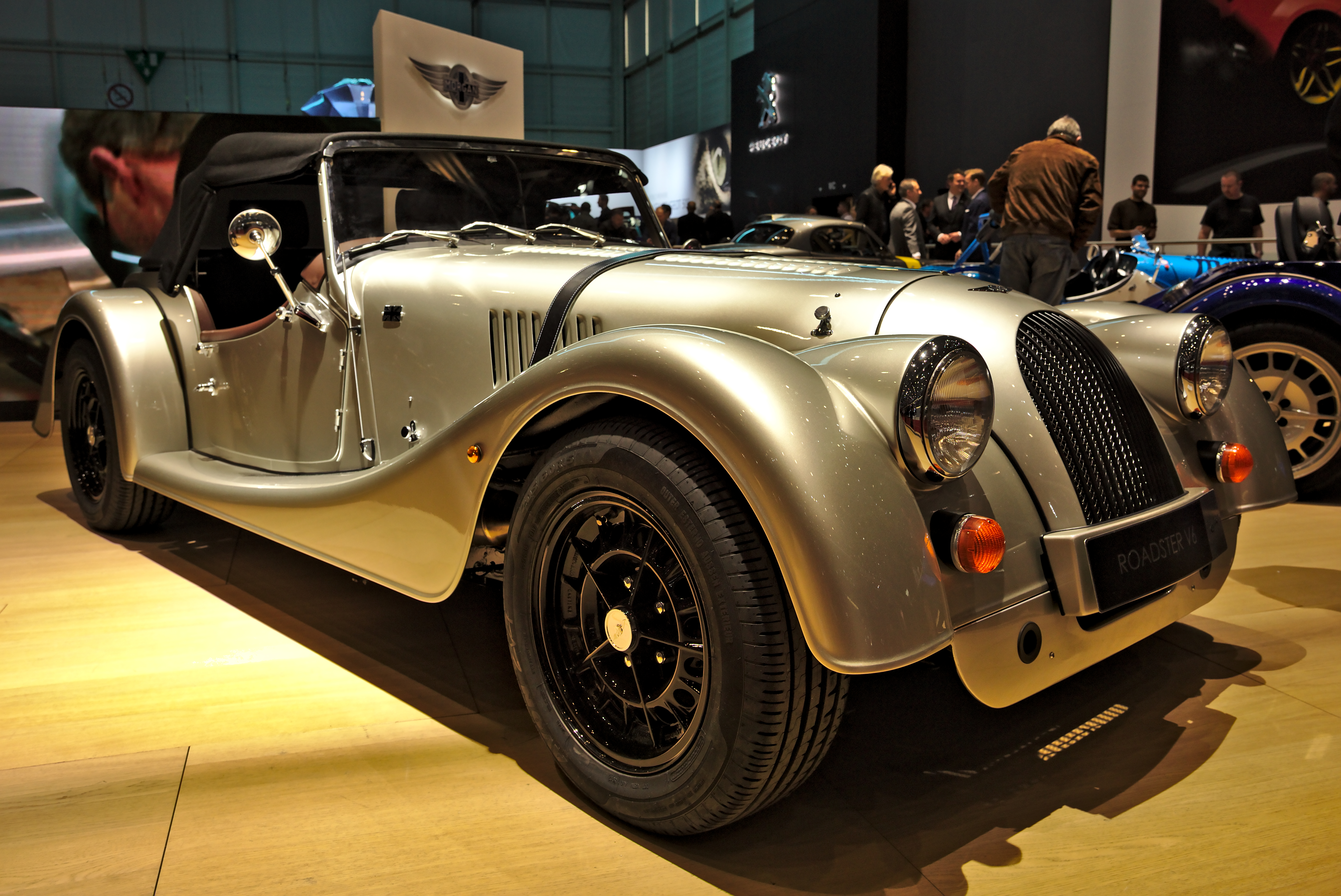 Morgan Roadster V6 at Geneva Motorshow 2018